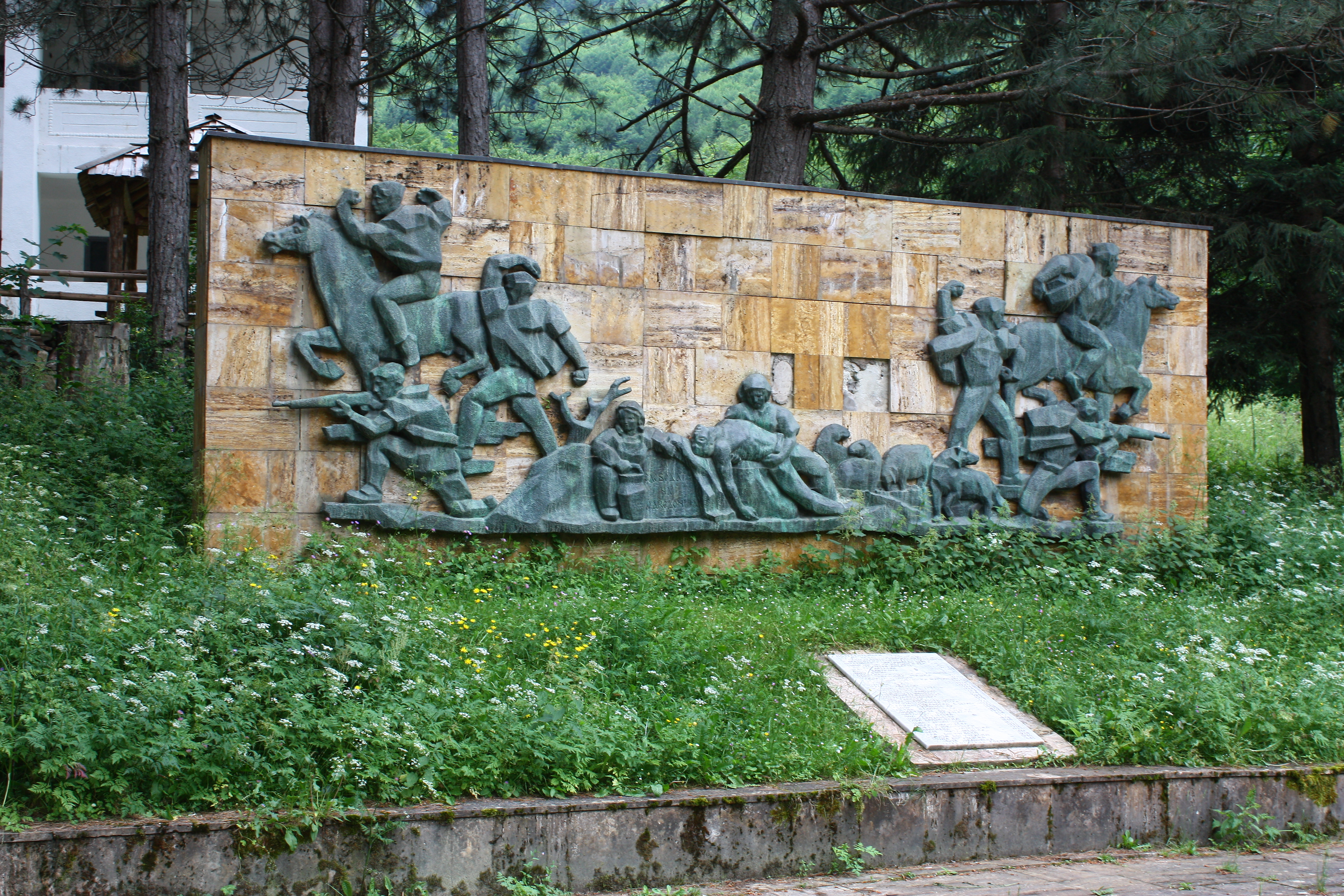 ITrnica, Macedonia